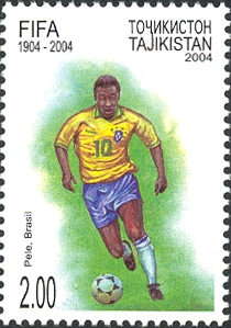 Stamps of Tajikistan